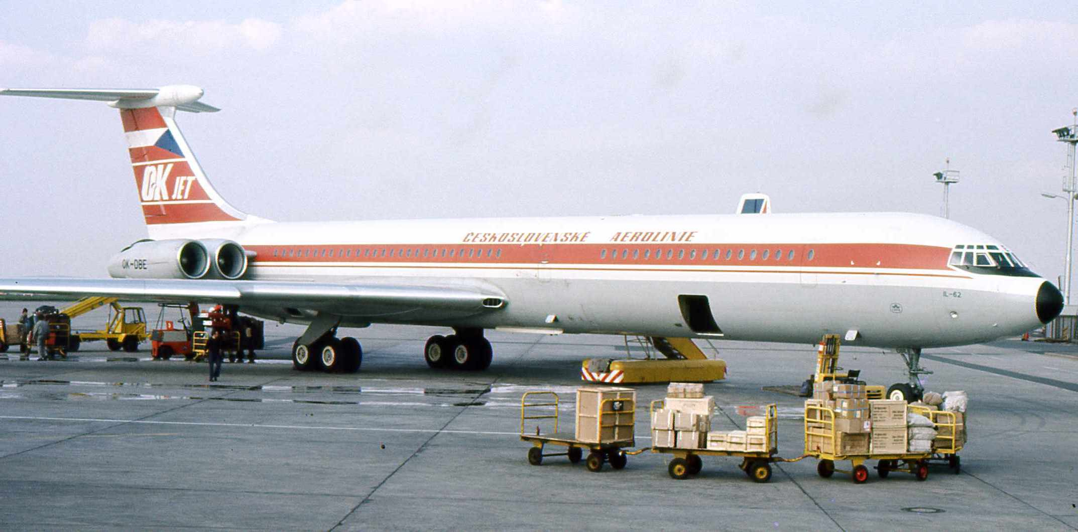 Czech Airlines Ilyushin Il-62 taken at Milan Linate Airport in 1975.